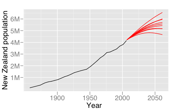 New Zealand's population (1860-2006). Projection scenarios from 2007-2061 are in red.